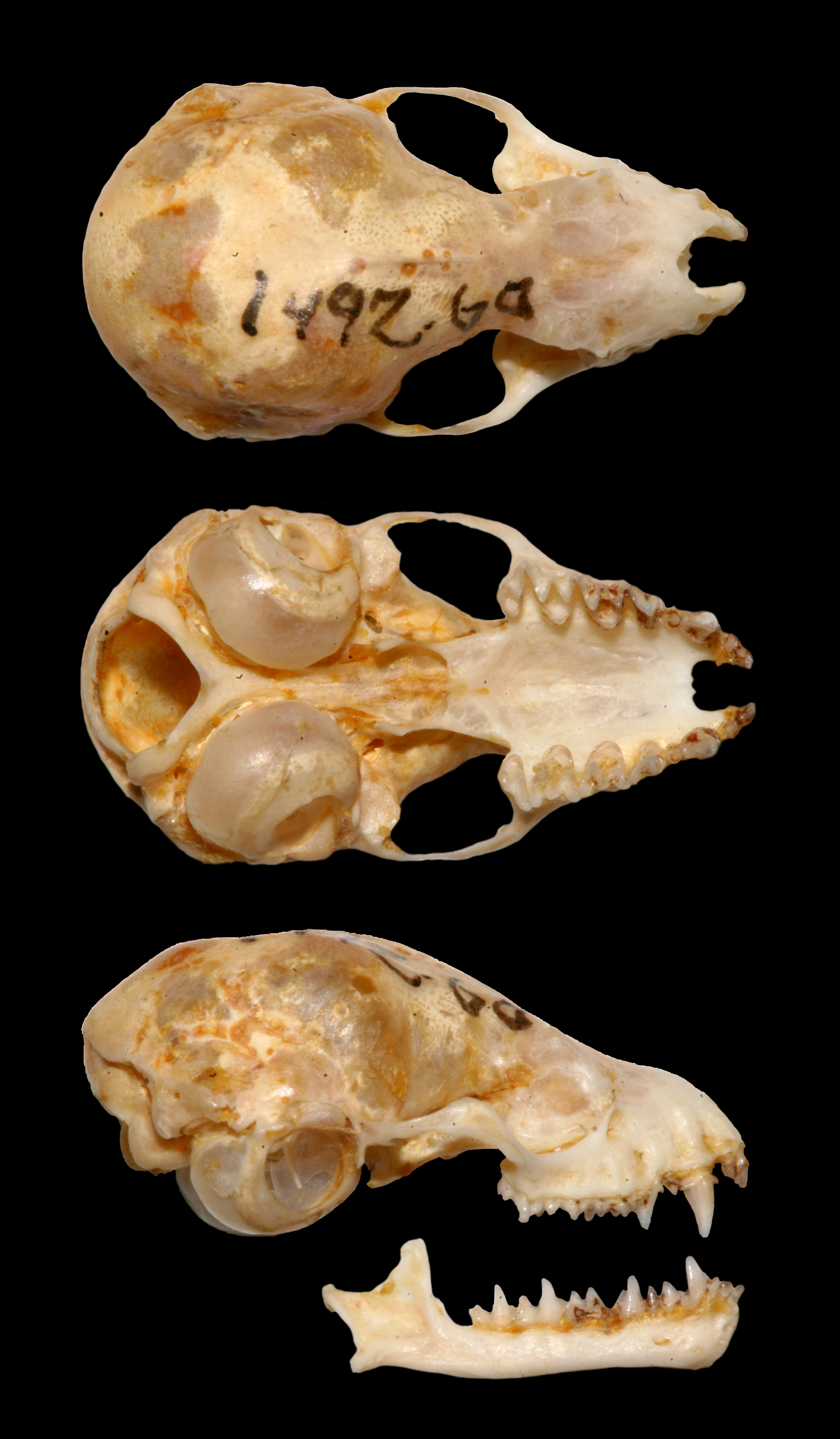 Dorsal, ventral, and lateral views of skull and lateral view of mandible of an adult female Plecotus macrobullaris collected in Santa Maria Val Müstair (Graubunden, Switzerland) in July 1946 by Villy Aellen. MHNG-MAM-1492.060 (GBIF record).